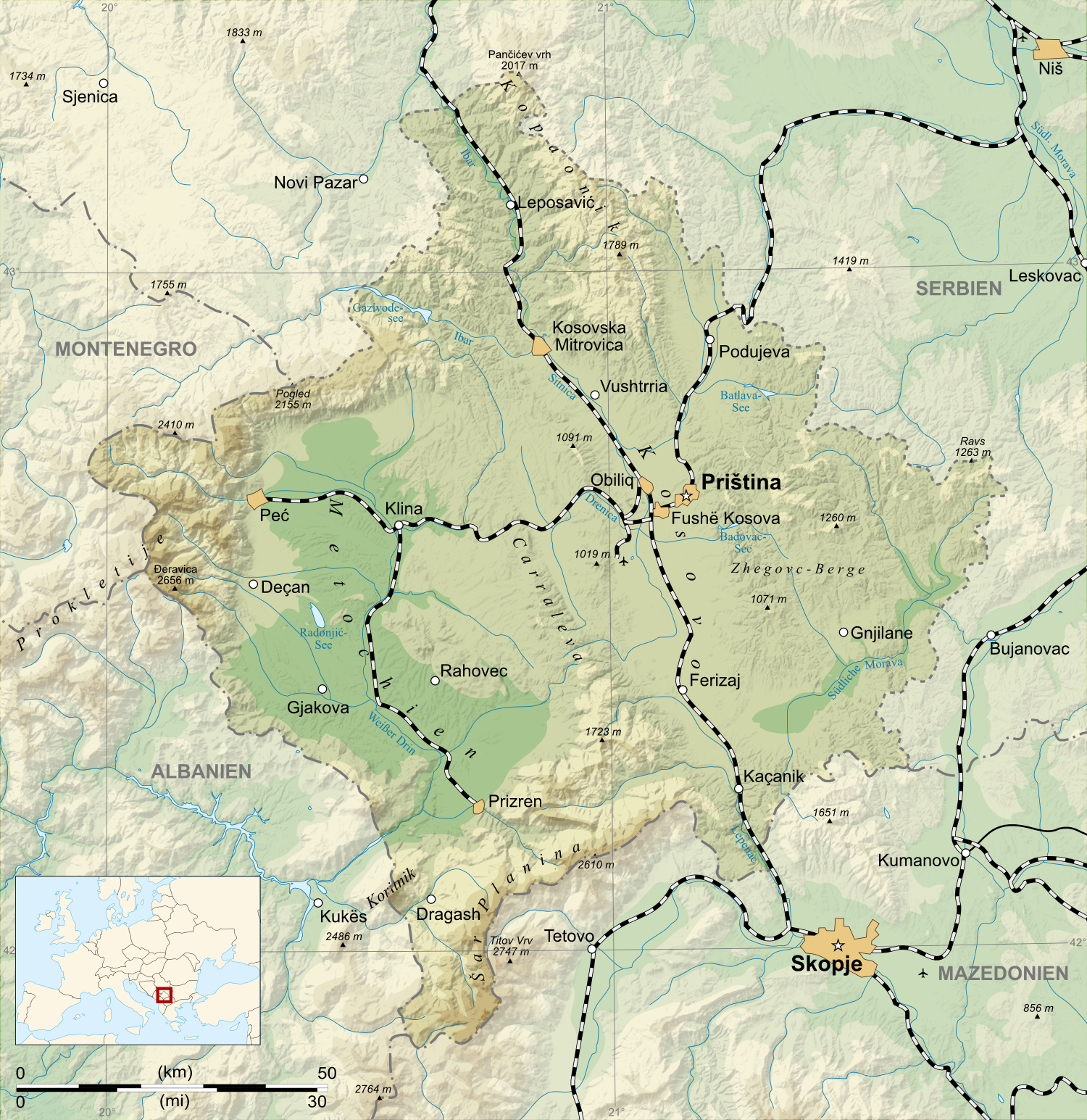 Map of the railway network in Kosovo, German version